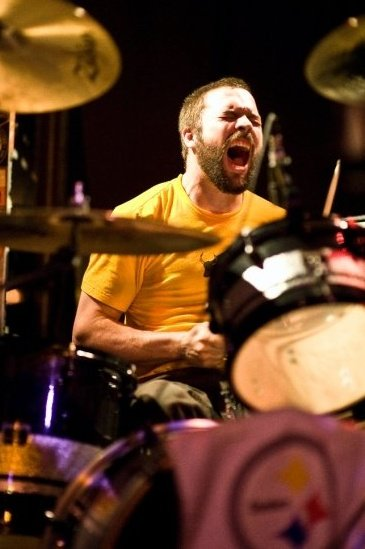 James Playing the drums. Stillers flag flying proud. Note: mouth is not closed. Note: mouth is never closed.